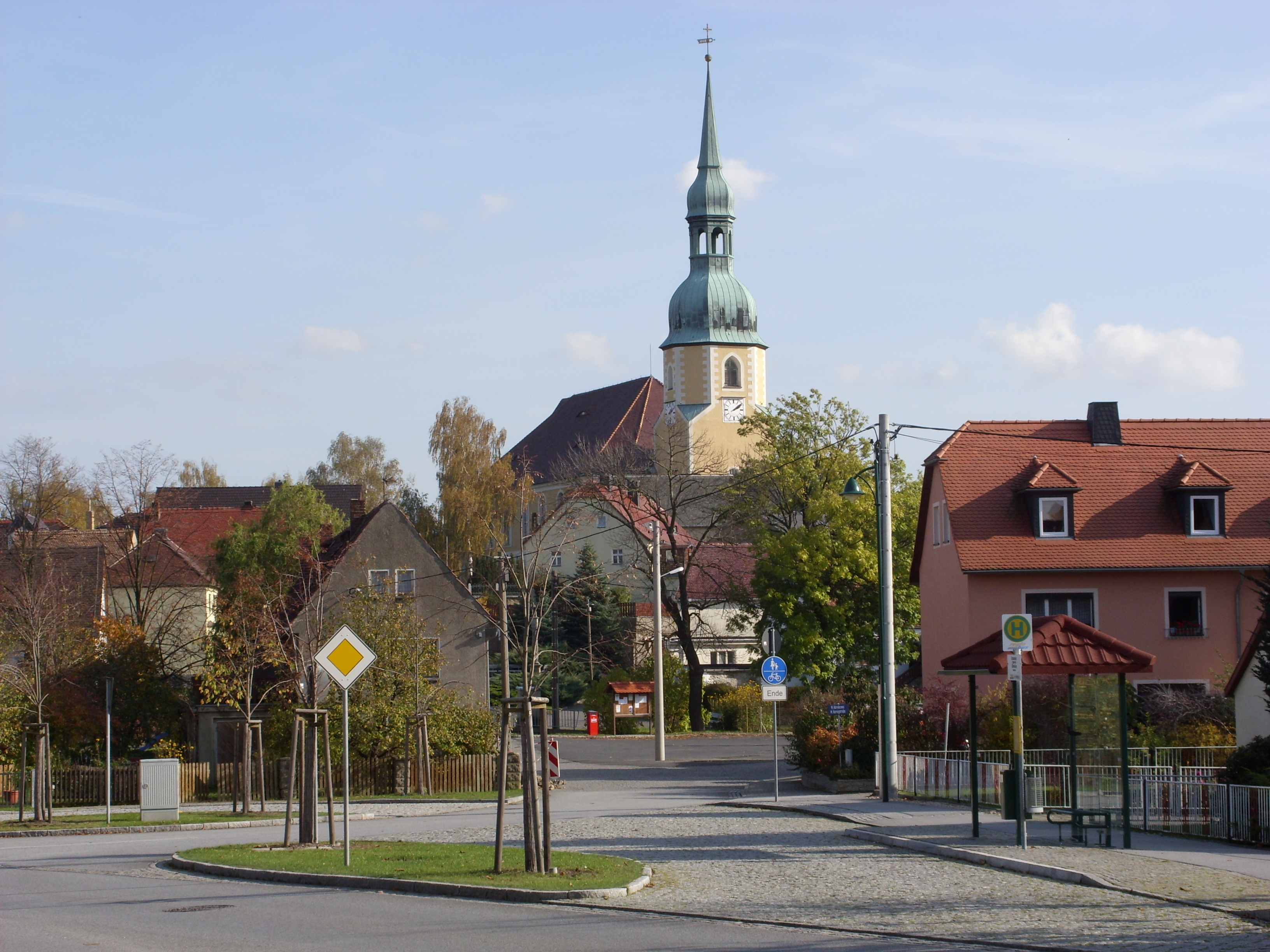 Crostwitz/Chrósćicy, catholic church in the background. Hornjoserbsce: Nawjes w Chrósćicach; w pozadku Cyrkwinska hora.